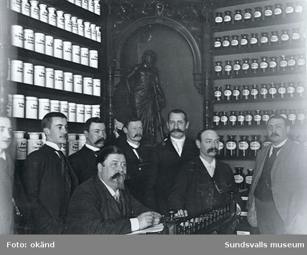 Pharmacy Sweden 1894, in Sundsvall